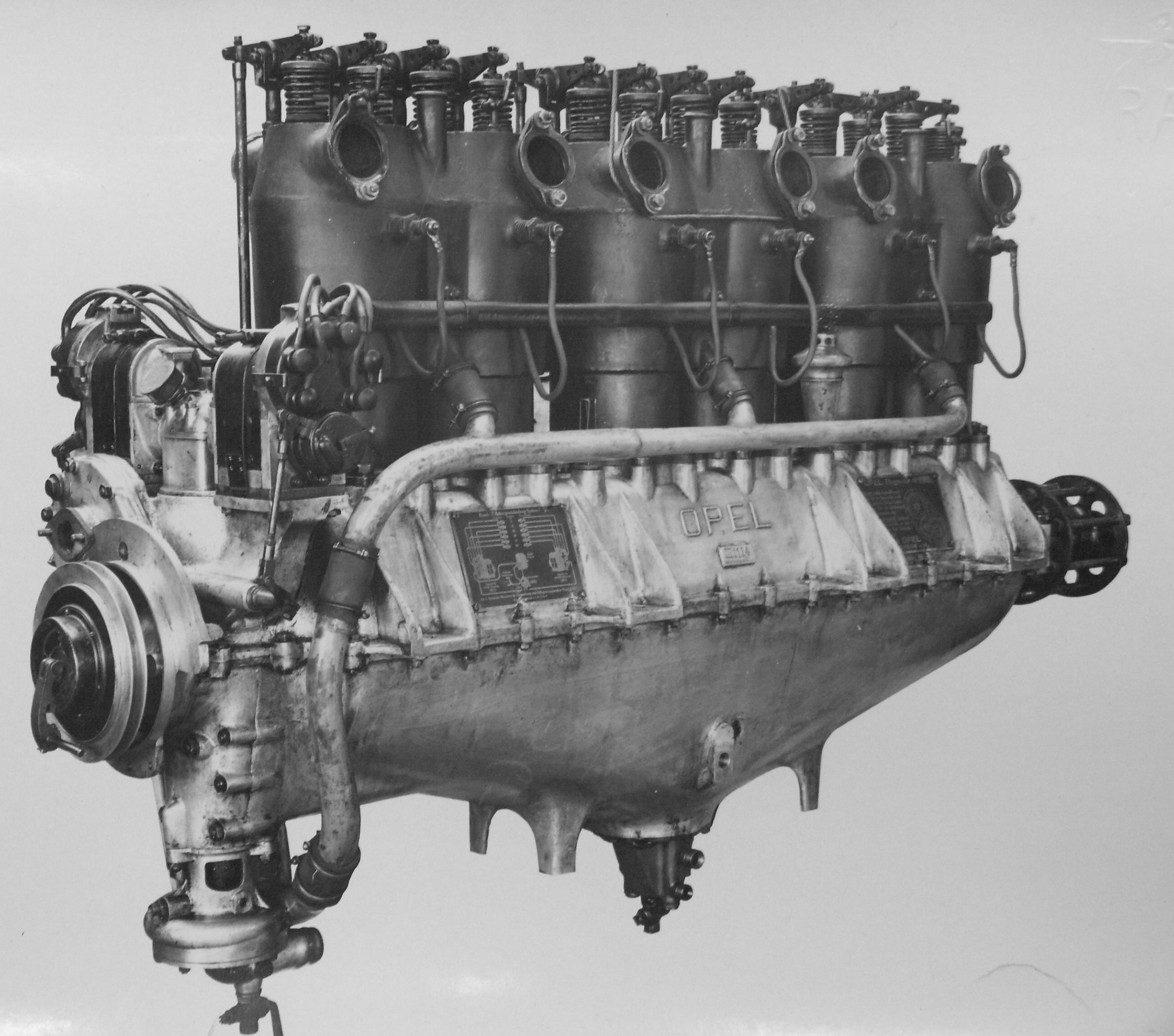 Argus As III (O) aircraft engine, produced under license by Opel during World War 1, exhaust side.